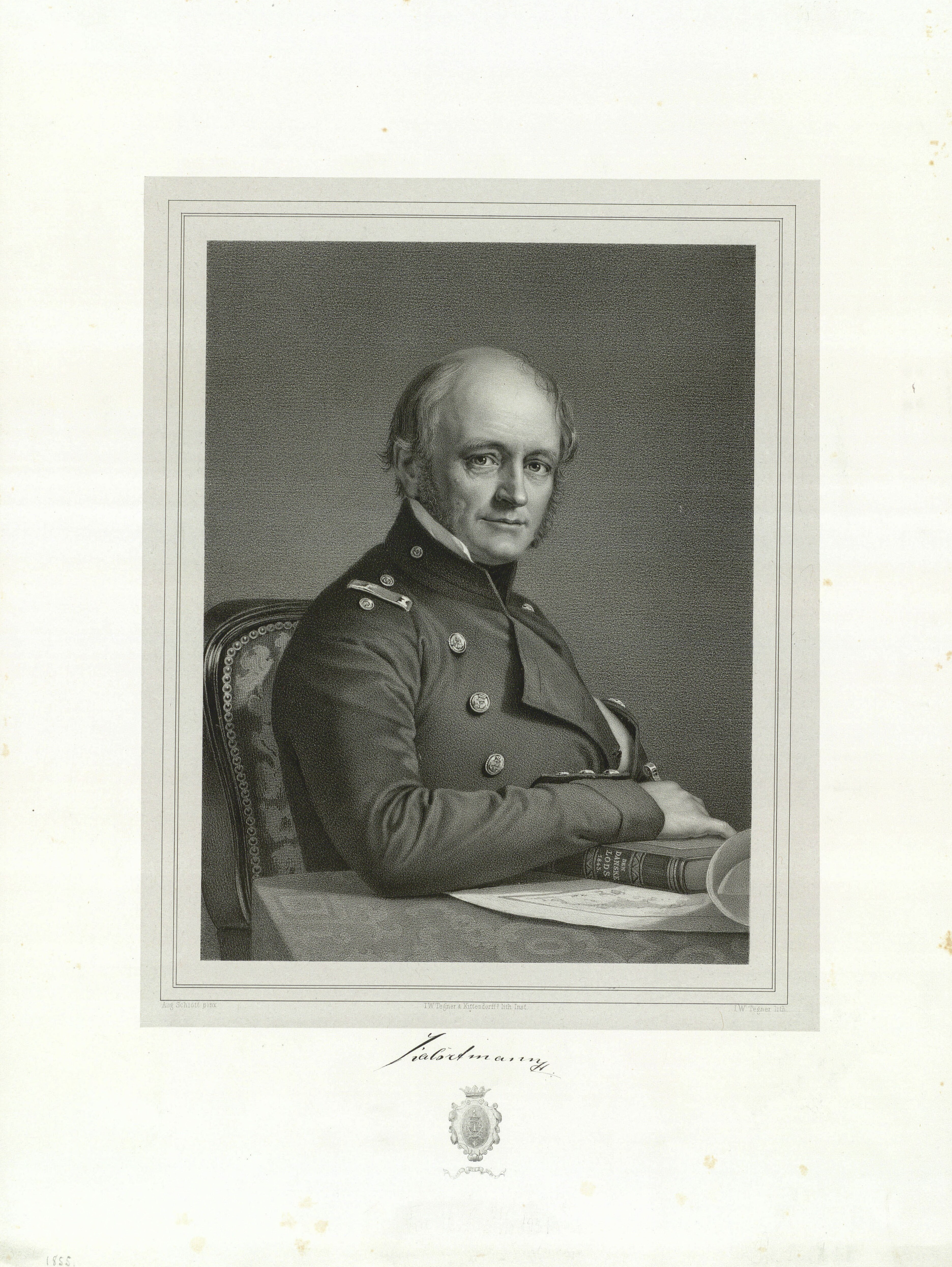 Christian Christopher Zahrtmann (1793-1853), Danish Vice Admiral and Minister of the Royal Navy